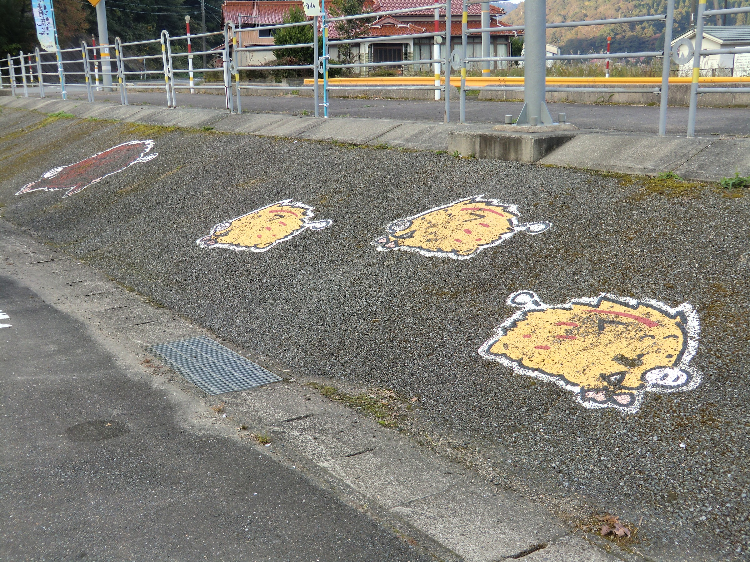 Illustration of uribo (baby boar) at the car park of Michinoeki Uribo no Sato Katamata in Hagi City, Yamaguchi Prefecture, Japan